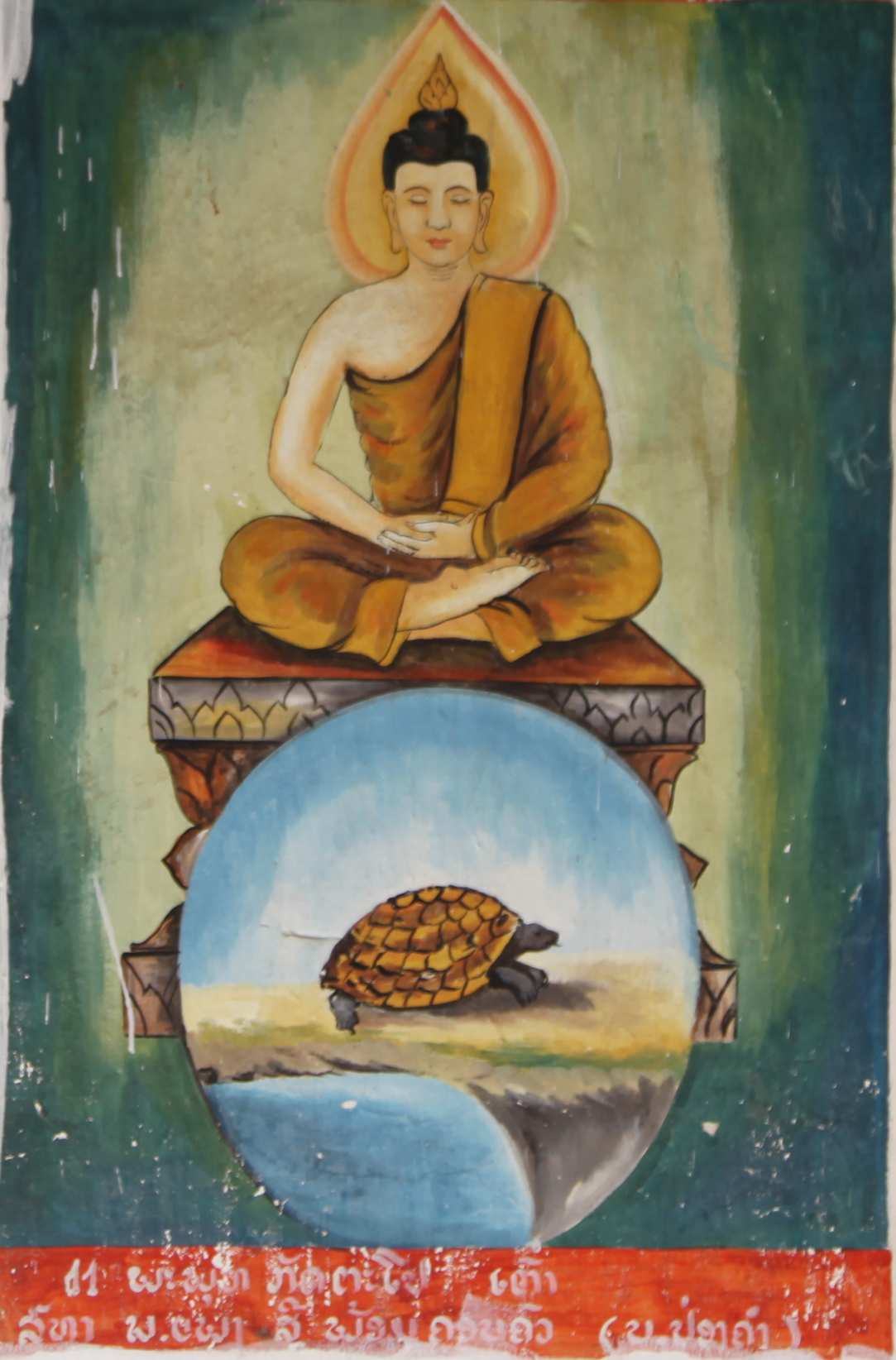 Painting of Kassapa Buddha. Cropped from and edited File:Wat Ho Xiang - Luang Prabang 20110415-04.JPG